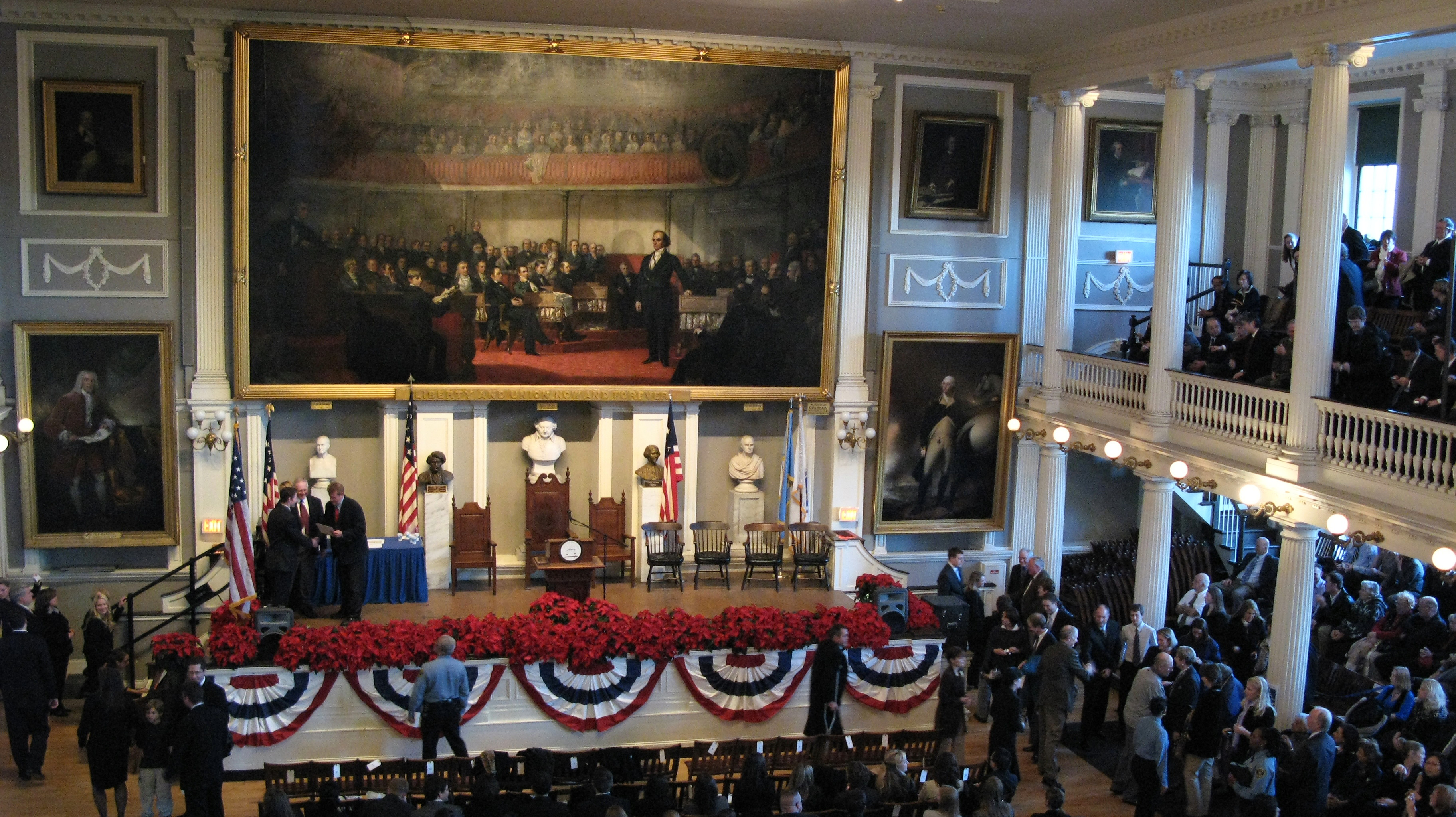 The rostrum in the Great Hall, Fanueil Hall Boston MA